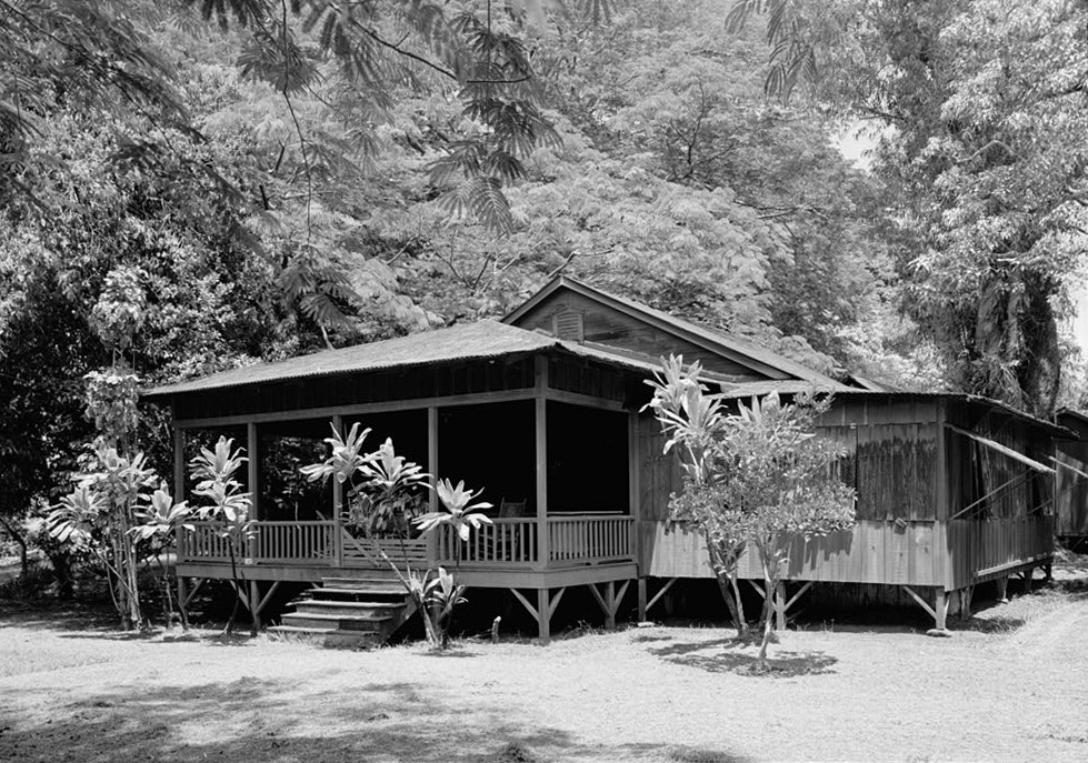 1901 building from the original homestead of James Drummond Dole (1877–1958), at the end of Dole Road, in Wahiawa, Hawaii. Dole established the first large-scale sucessful Pineapple plantation, and the company that would eventually be called Dole Food Company. The house has since been moved to the Waipahu Cultural Garden.